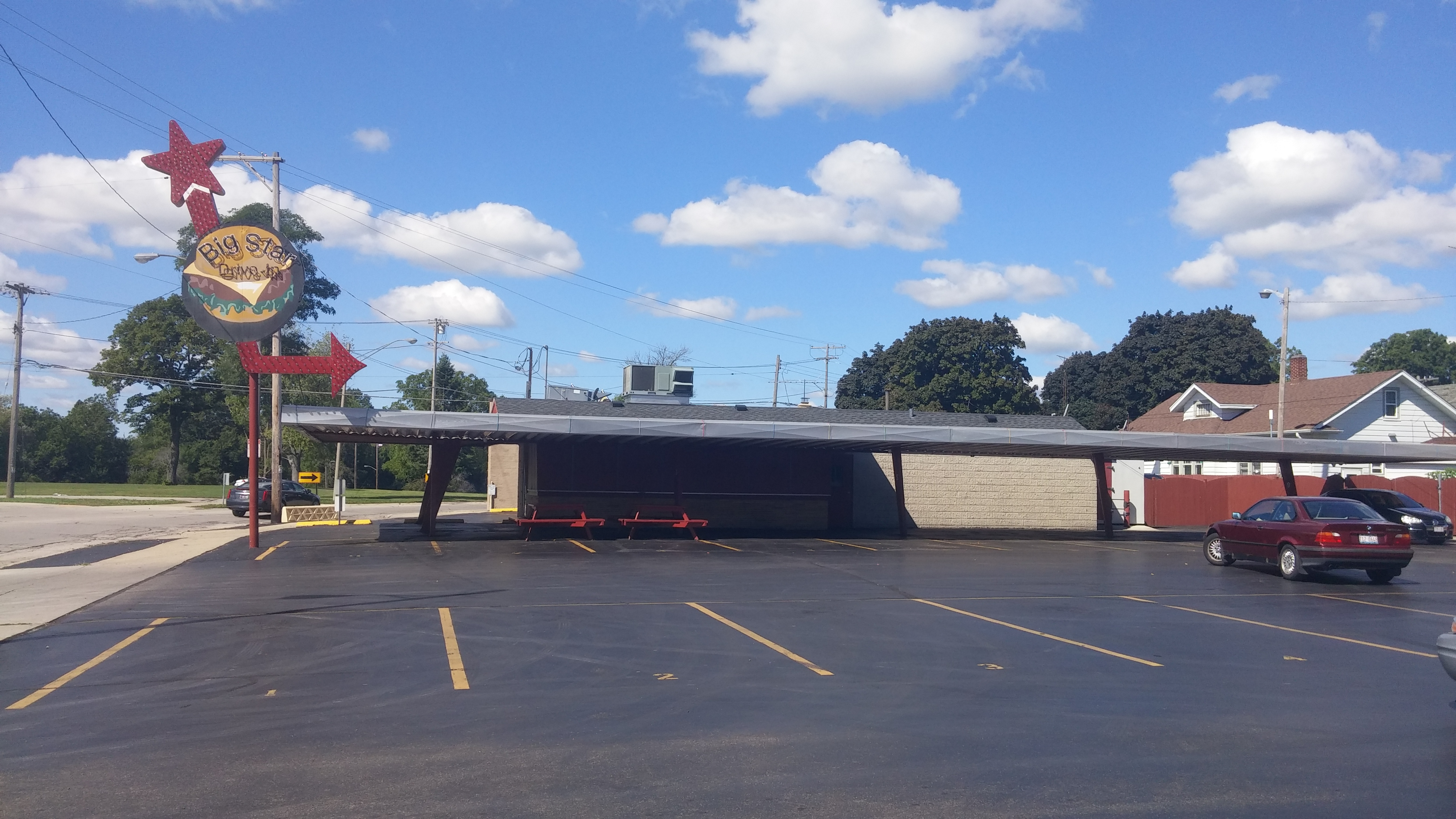 This is a photograph of Big Star Drive-In Restaurant in Kenosha, Wisconsin.